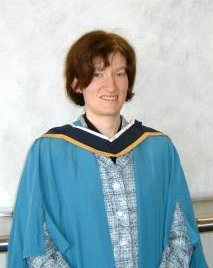 Graduation photo (Open University, MEd) of User:Musical Linguist, taken by her father, Dublin, 23 April 2005, and released, through her, as GFDL.